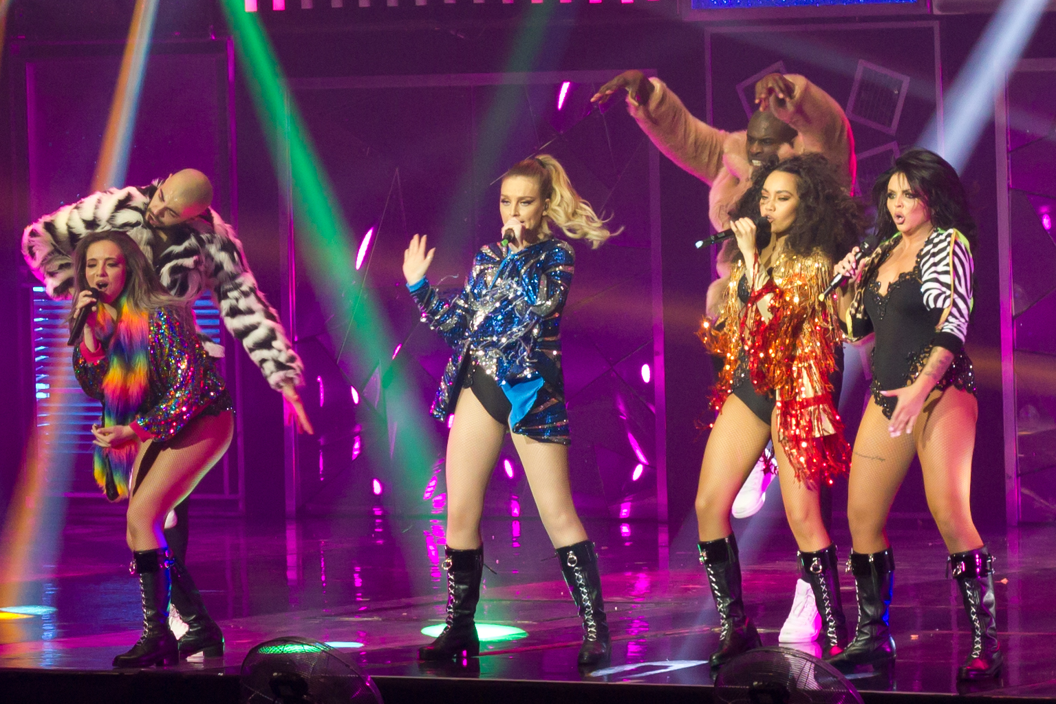 Little Mix